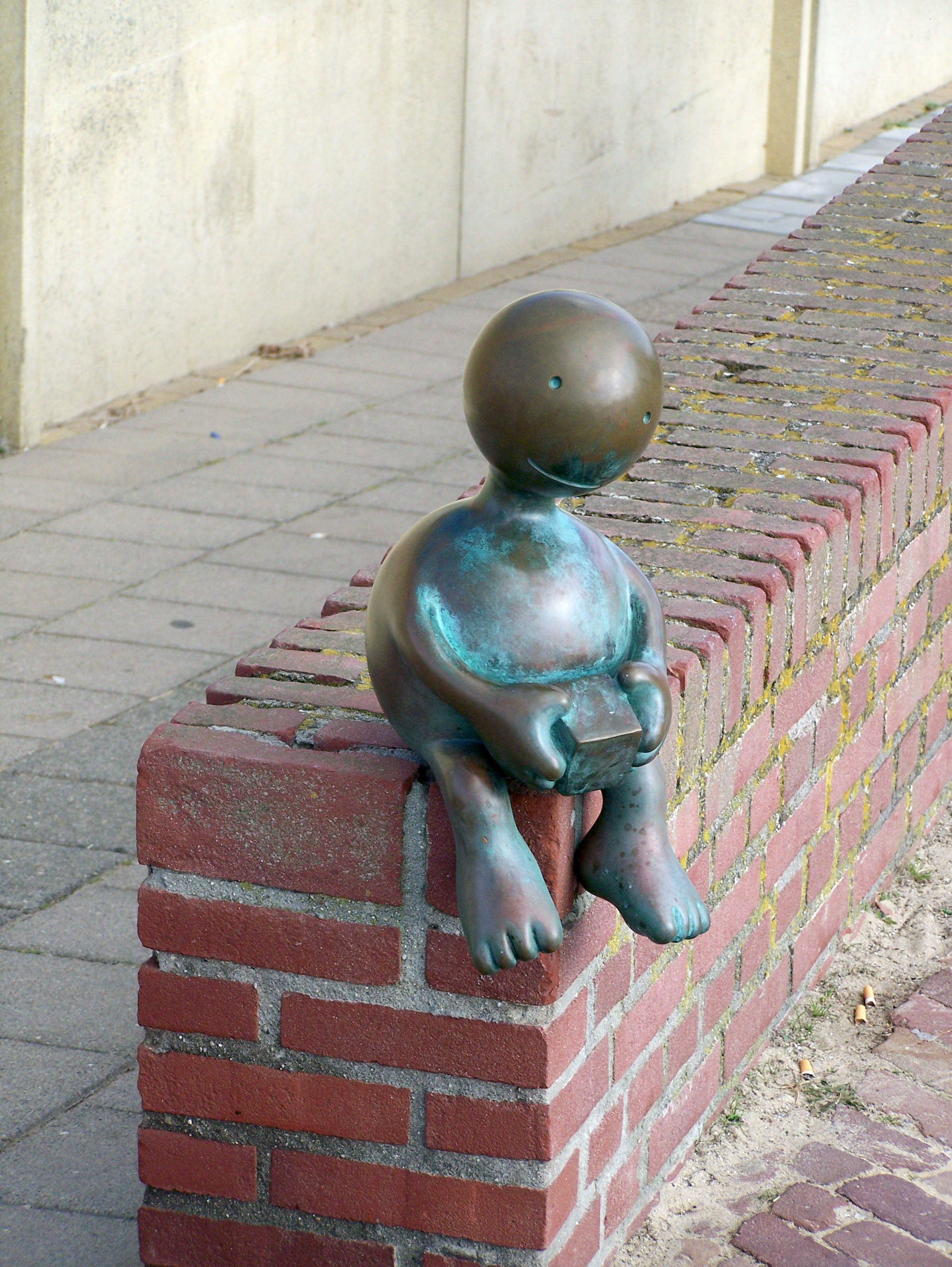 Sculpture, probably part of "Curious figures", made by Tom Otterness i 2004 as part of the Fairy Tale park at the Beelden aan Zee Museum in Scheveningen in The Hague.